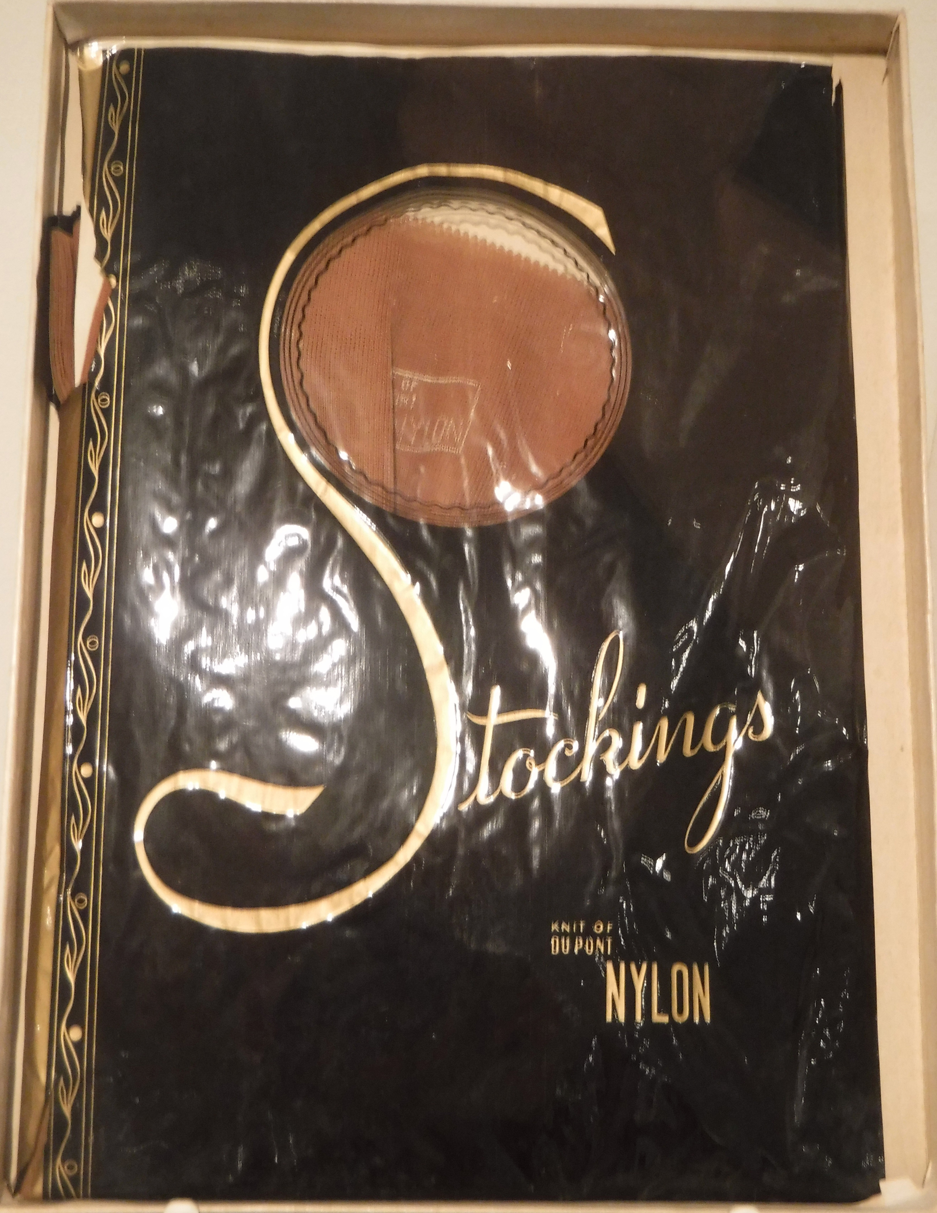 Stockings knit of Du Pont Nylon in original packaging, displayed as part of the museum exhibition Second Skin: The Science of Stretch at the Chemical Heritage Foundation, on view from November 4, 2016 to May 13, 2017.